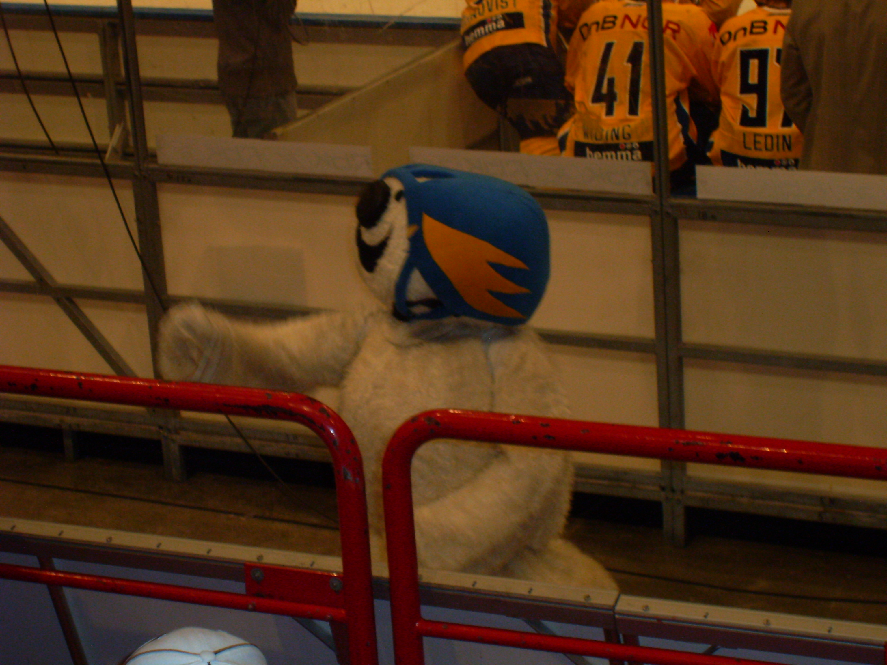 Sweden national men's hockey team's mascot Snowy during the Sweden-Latvia (4–3) men's international ice hockey game inside the Stockholm Globe Arena, Sweden.